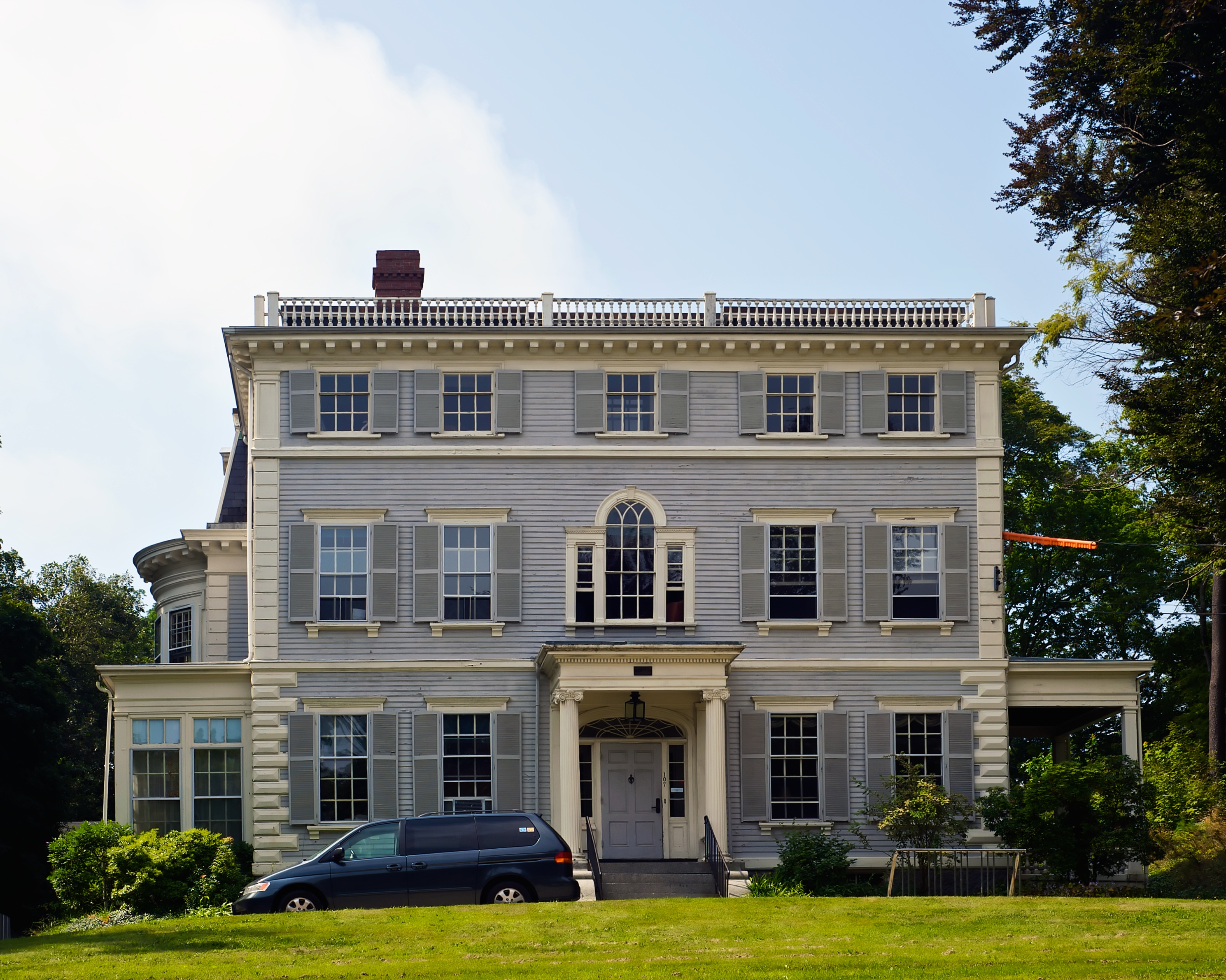 Old Ship Parish House, Hingham, Massachusetts